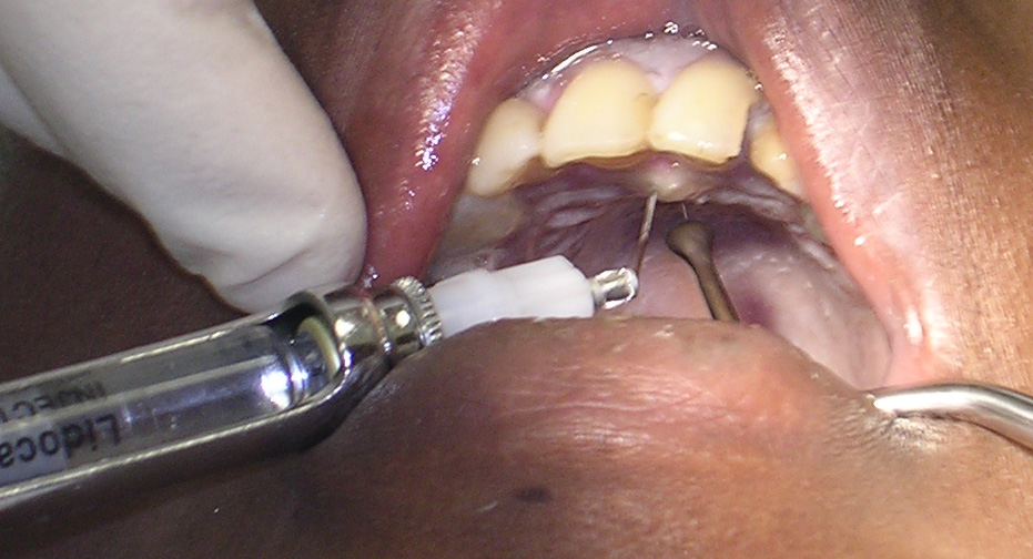 Photo of dental local anesthesia for tooth extraction. Taken at the University of Tennessee Dental College in Memphis. Source: Photo taken by Dozenist.